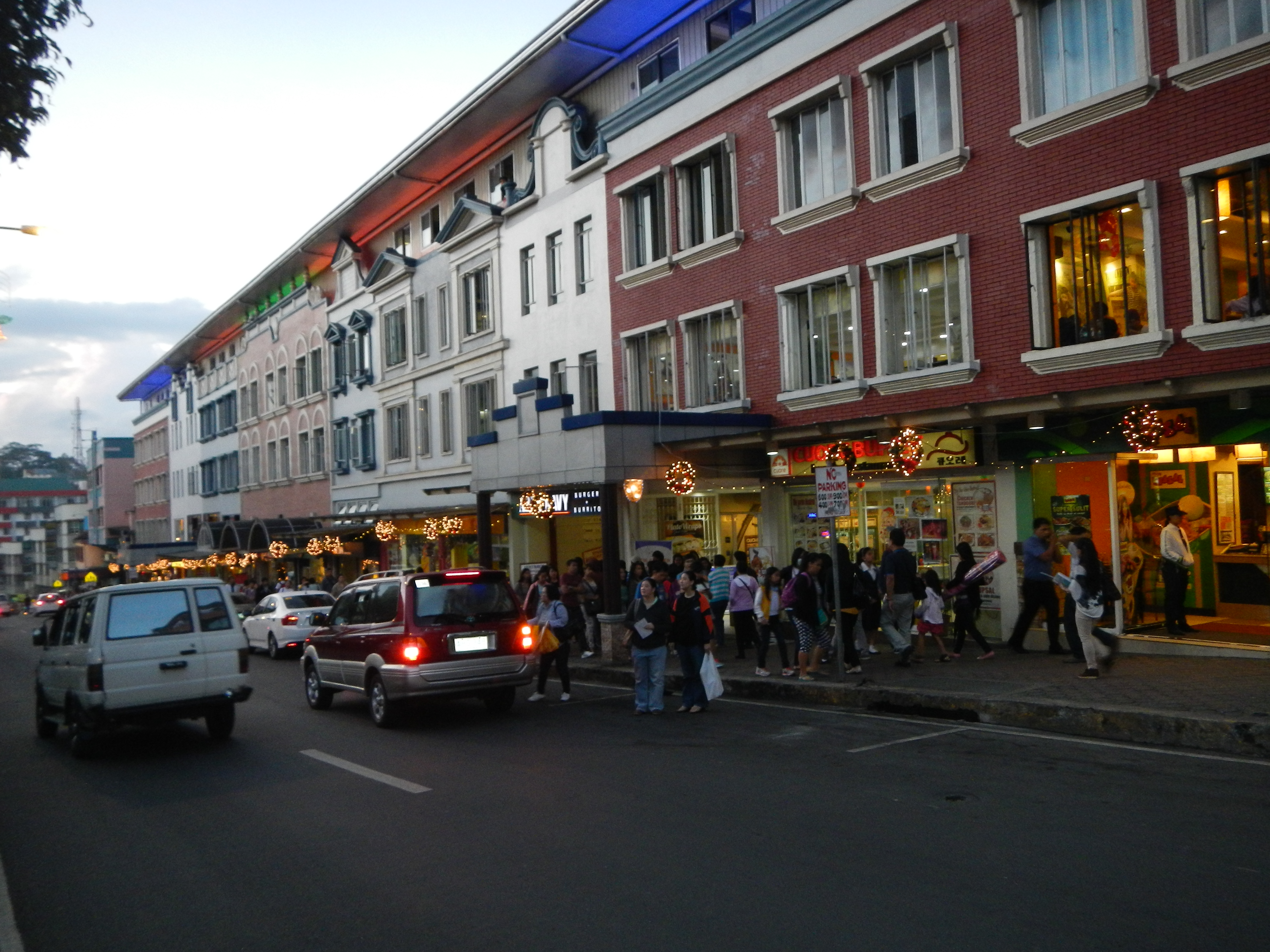 Upload Wizard photos of - Baguio[1] City - the landmark tourist heritage site of - Baguio Cathedral [2] [3] Baguio Central Business District. - Our Lady of the Atonement Cathedral Mount Hill, Cathedral Loop, Baguio City adjacent to Session Road[4] - Radial Road 9 [5] - [6] Website of Cathedral Cathedral Hill, 2600 Baguio City Titular: Our Lady of Atonement (July 9) Parish Priest: Fr. Emmanuel Panayo Parochial Vicar: Fr. Seraph Balmadres [7] Titular: Our Lady of Atonement, July 9 Parish Priest: Fr. Emmanuel Panayo.